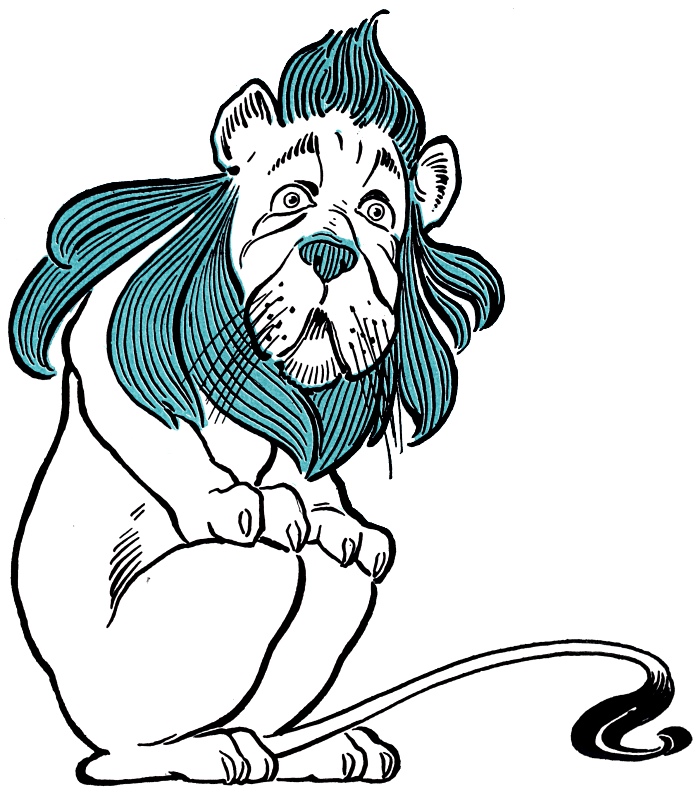 The Cowardly Lion as pictured in The Wonderful Wizard of Oz by L. Frank Baum